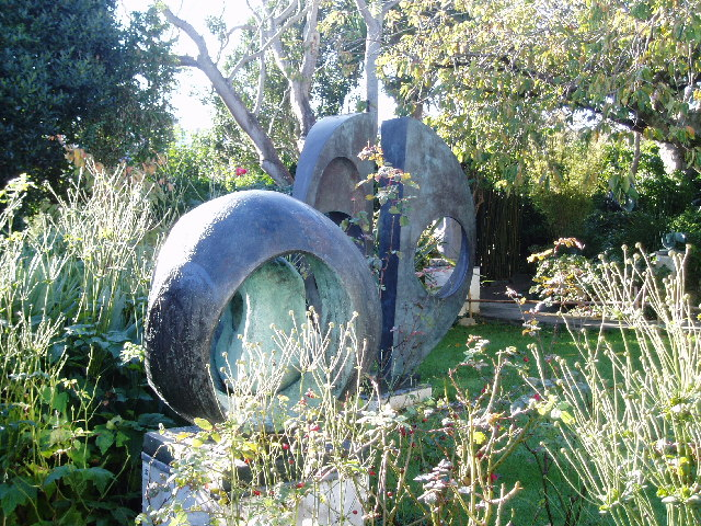 Barbara Hepworth Sculpture Garden, St Ives. Sphere with inner form (1963) with two forms (divided) in the background